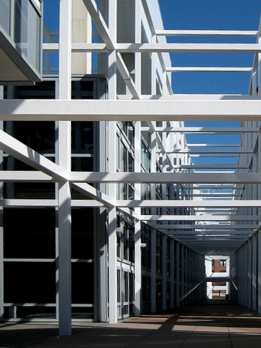 Wexner Center (location ?) by Peter Eisenman.